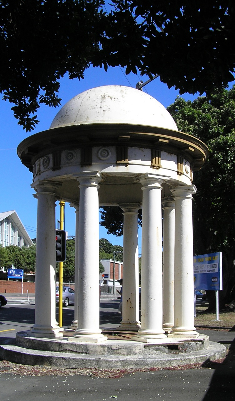 The Wakefield Memorial before it was moved back inside the grounds of the Basin Reserve.